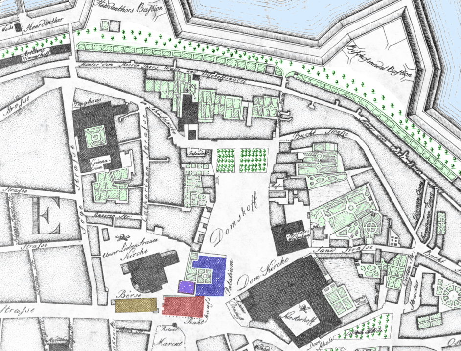 adapted cut of the citymap of Bremen printed in 1796 red = Rathaus (townhall), blue = Palatium (episcopal palace), that time residence of an administrator of the Hanoveran enclave inside the city, ochre = Börse (stock exchange) Almost all gardens in the old city on the right bank were situated in the episcopal/Hanoveran part.